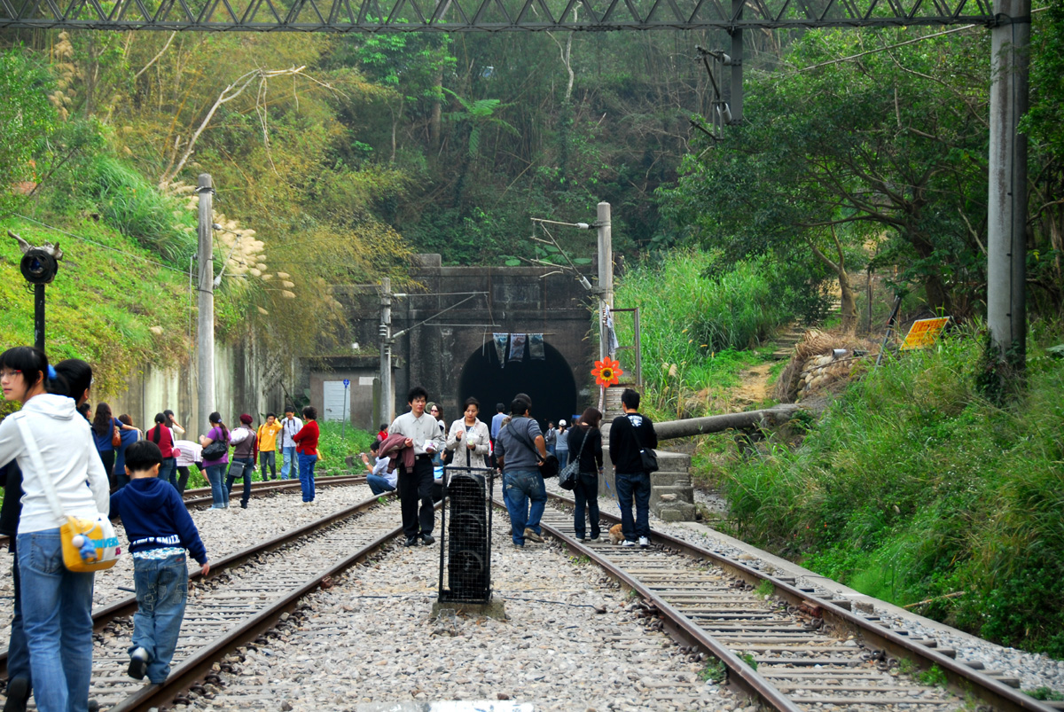 Shengsing Station is a train station along Old Mountain Line, an abandoned section of Taichung Line, one of the trunk line of Taiwan Railway Administration. It is located within the boundary of SanYi Township, MiaoLi County. Today the station has been turned into a tourist site rather than a transportation infrastructure. This photo shows the entrance of the tunnel south of the station.